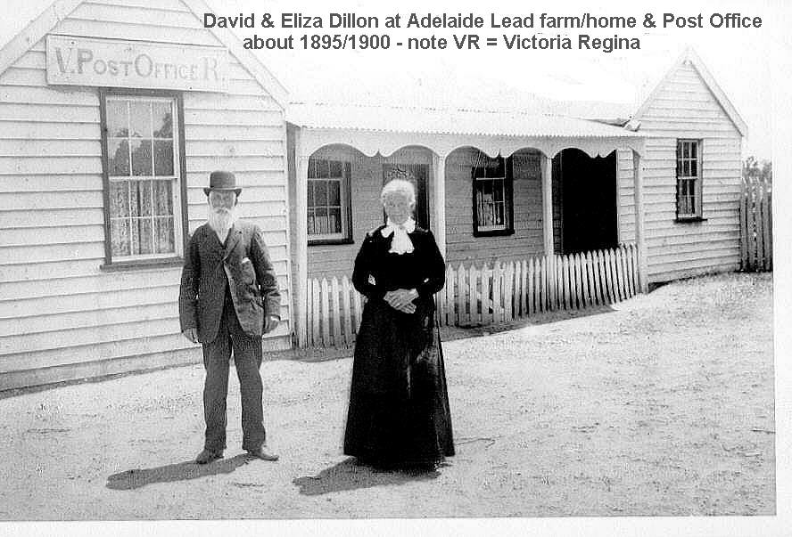 Image shows the Adelaide Lead Post Office abt. 1890s with Postmaster David Dillon and his wife Eliza